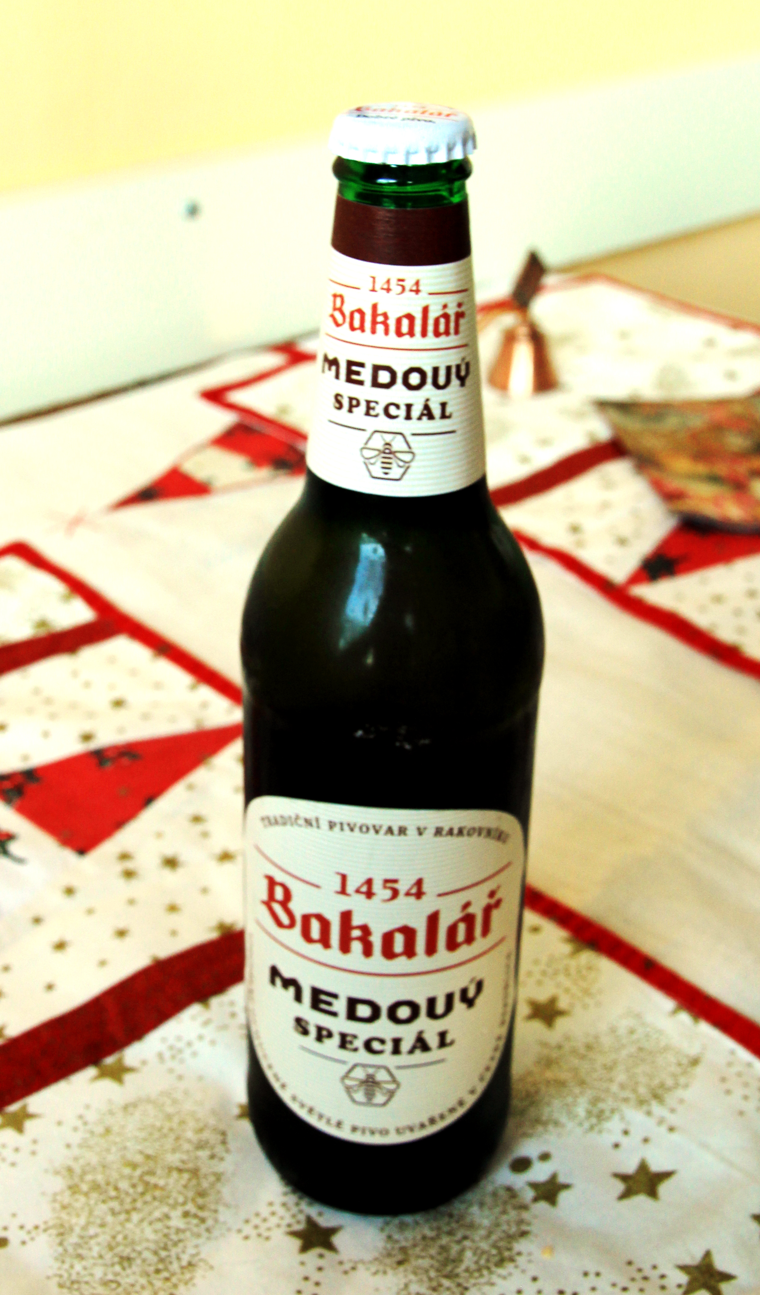 Bottle of special honey beer “Bakalář medový speciál” from Brewery in Rakovník, Czech republic